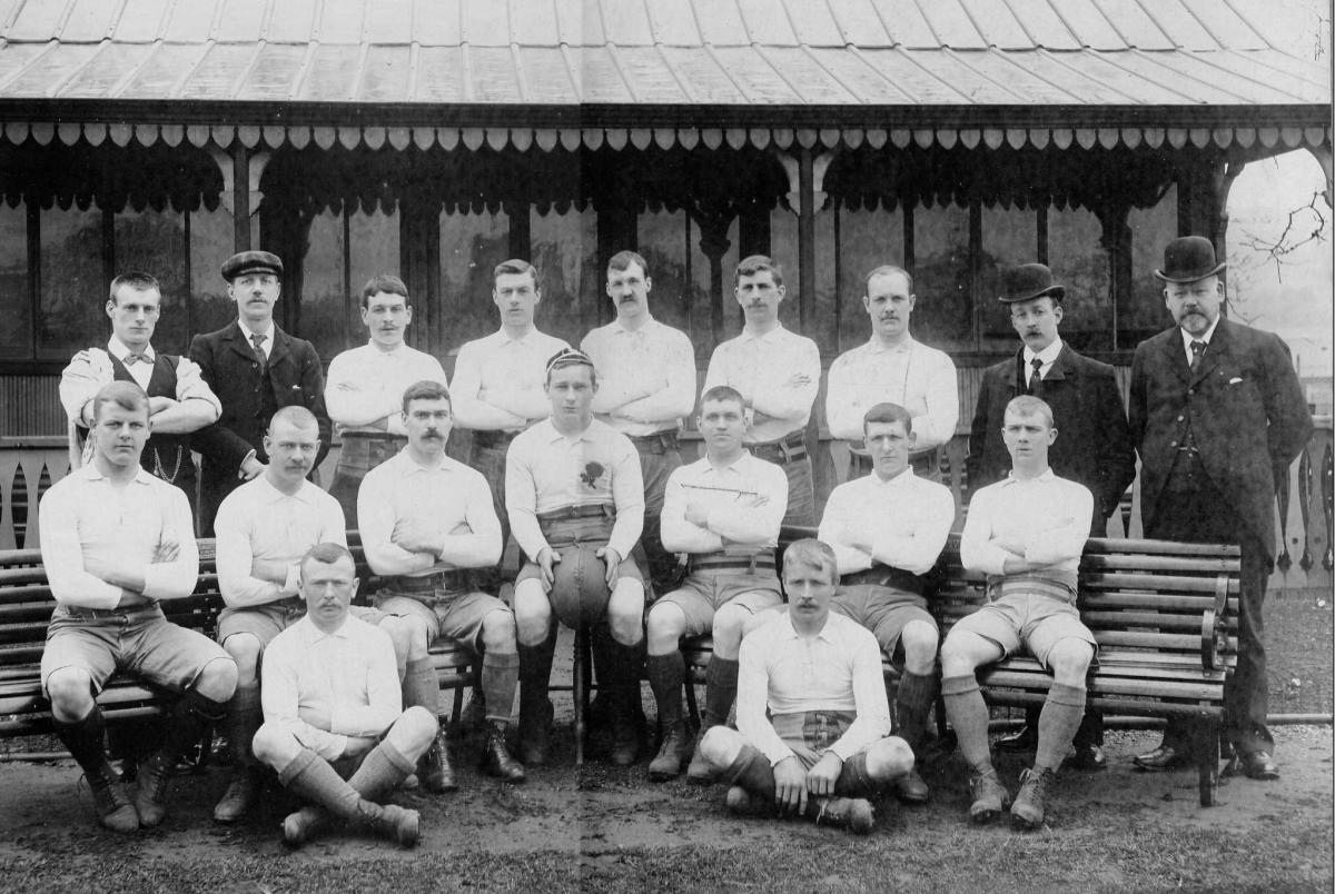 Early team of Keighley FC.